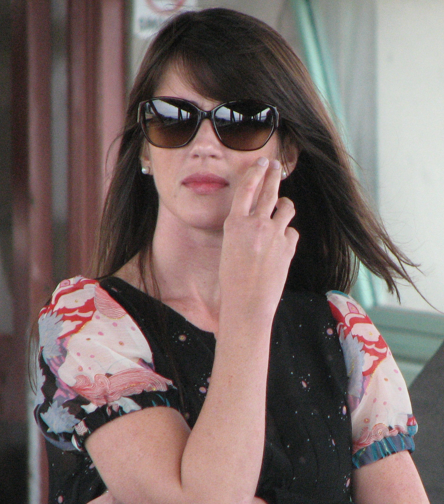 A woman wearing sunglasses, taken in a public walkway at Pike Place Market, Seattle, Washington.